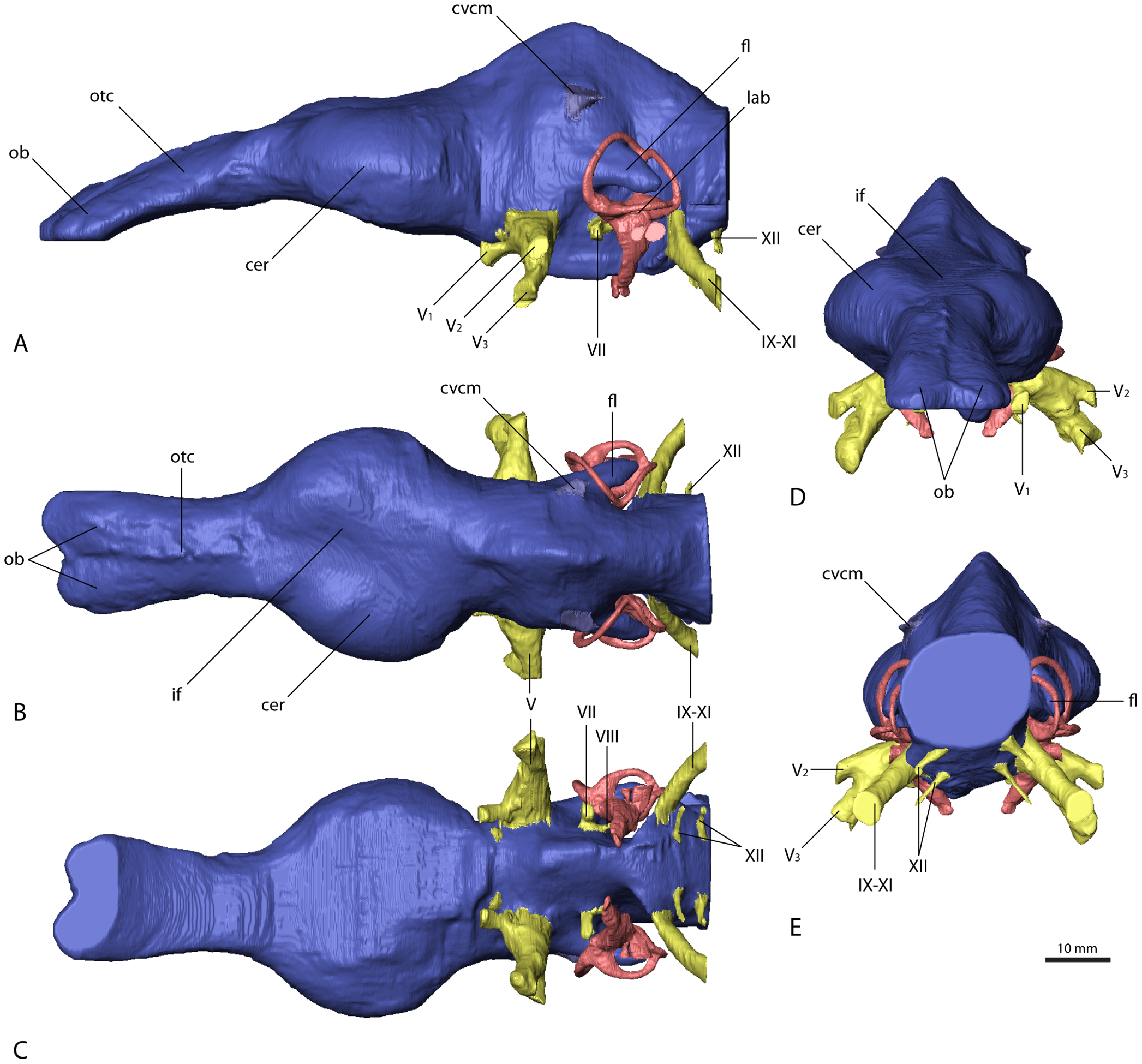 Cranial endocast of Erlikosaurus andrewsi (IGM 100/111). In (A) left lateral, (B) dorsal, (C) ventral, (D) rostral, and (E) caudal view. Abbreviations: cer, cerebral hemisphere; cvcm, caudal middle cerebral vein; fl, floccular lobe; if, interhemispherical fissure; lab, endosseous labyrinth; ob, olfactory bulbs; otc, olfactory tracts; V1, ophthalmic branch of the trigeminal nerve canal; V2, maxillary branch of the trigeminal nerve canal; V3, mandibular branch of the trigeminal nerve canal; VII, facial nerve canal; VIII, vestibulocochlear nerve canal; IX–XI, shared canal for the glossopharyngeal, vagus and spinal accessory nerve; XII, hypoglossal nerve canal.